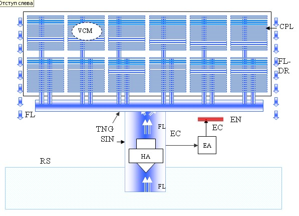 Molecular power 25. Molecular branched stream hydropower system on the basis of volume capillary modules